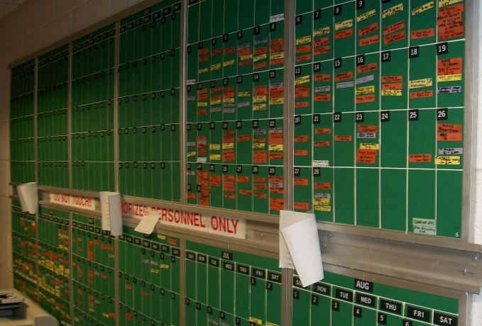 Athletic event scheduling board at Union County College, Cranford campus, in New Jersey. Only authorized persons are allowed to place or remove entries on the board. This enables schedulers to keep track of events and facilities use.